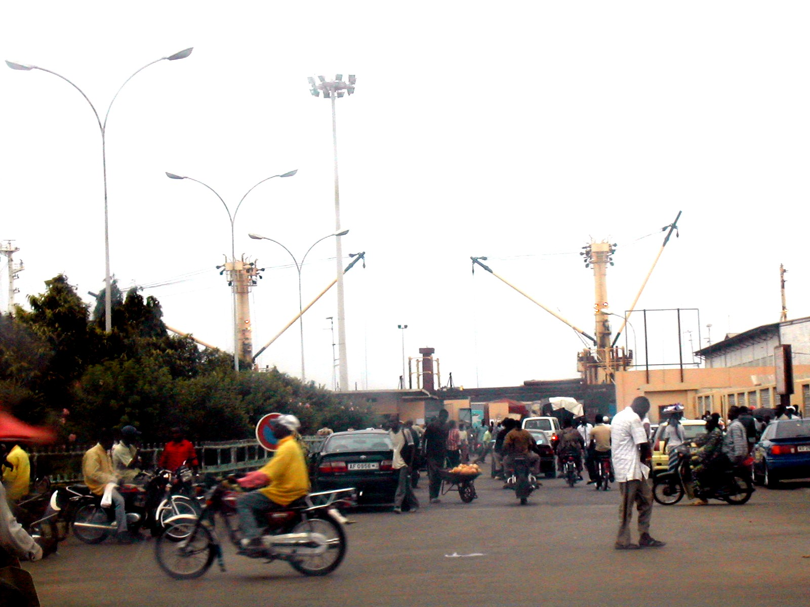 Traffic around Cotonou, Benin port